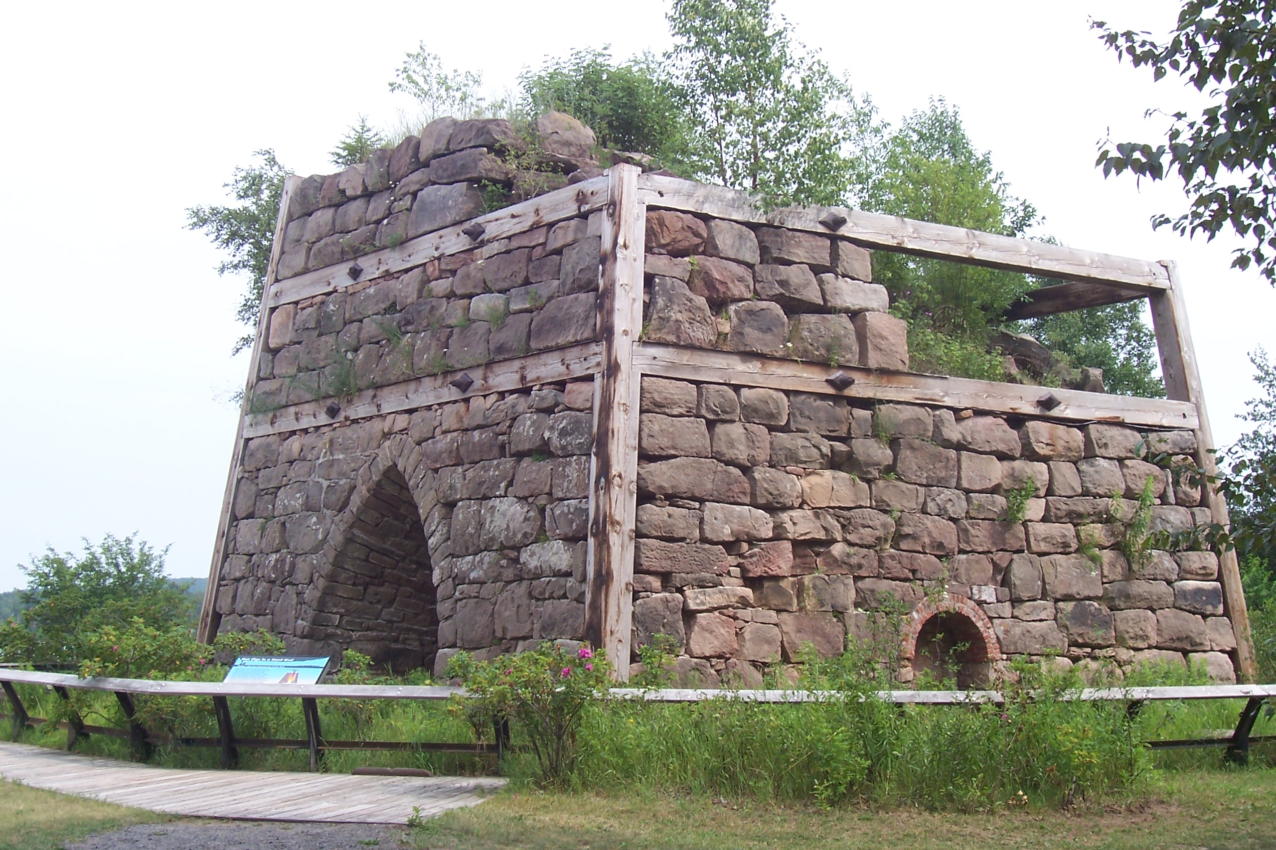 Onota (Bay Furnace); This is a partial reconstruction of the original iron smelting furnace located on the southern shore of Lake Superior near present-day Christmas, Michigan.